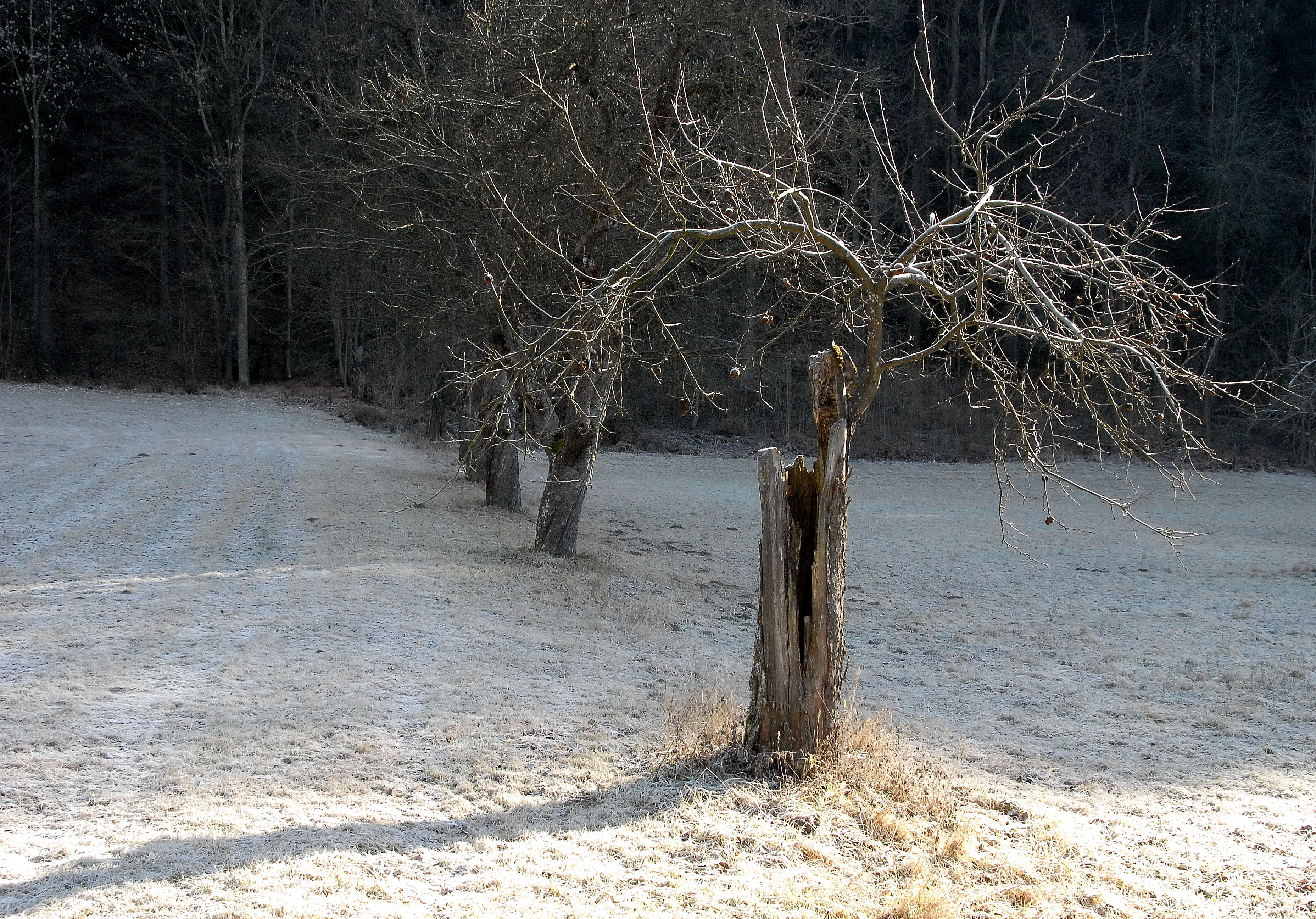 Hibernal orchard featuring an old apple tree at the mystical place of the "Kate" (corner) near Winklern, municipality Poertschach on the Lake Woerth, district Klagenfurt-Land, Carinthia, Austria